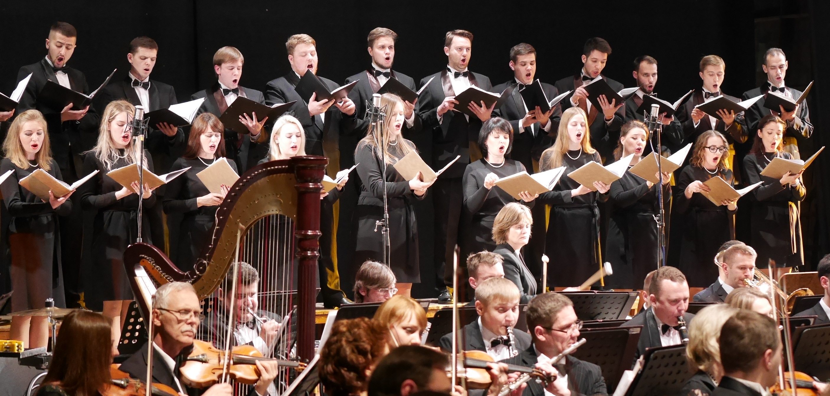 Фото зроблене під час концерту Академічного камерного хору "Хрещатик" натхненником і автором проекту Андрієм Воїновим